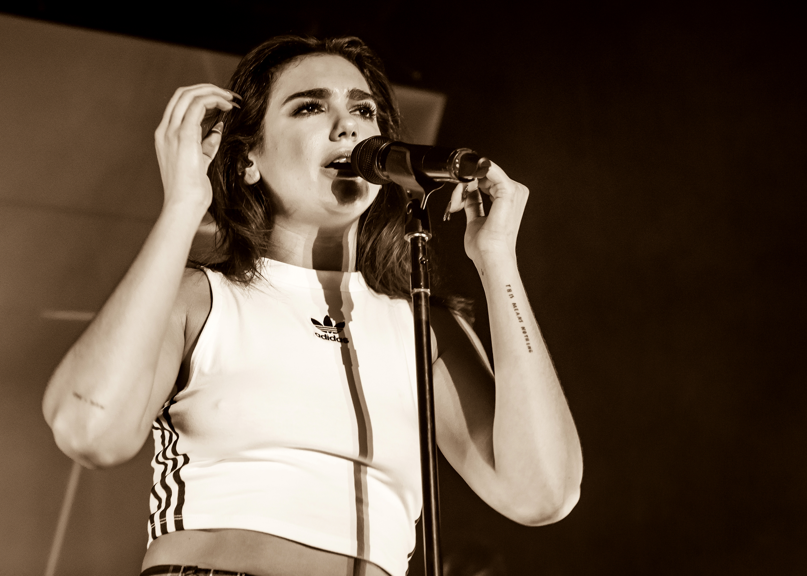 Dua Lipa performing live at The Palladium in Hollywood, Los Angeles, California, on Thursday, February 8, 2018. The first of two sold out nights at this venue on Dua's "Self-Titled" Tour. Shot for Live Nation's Ones To Watch.